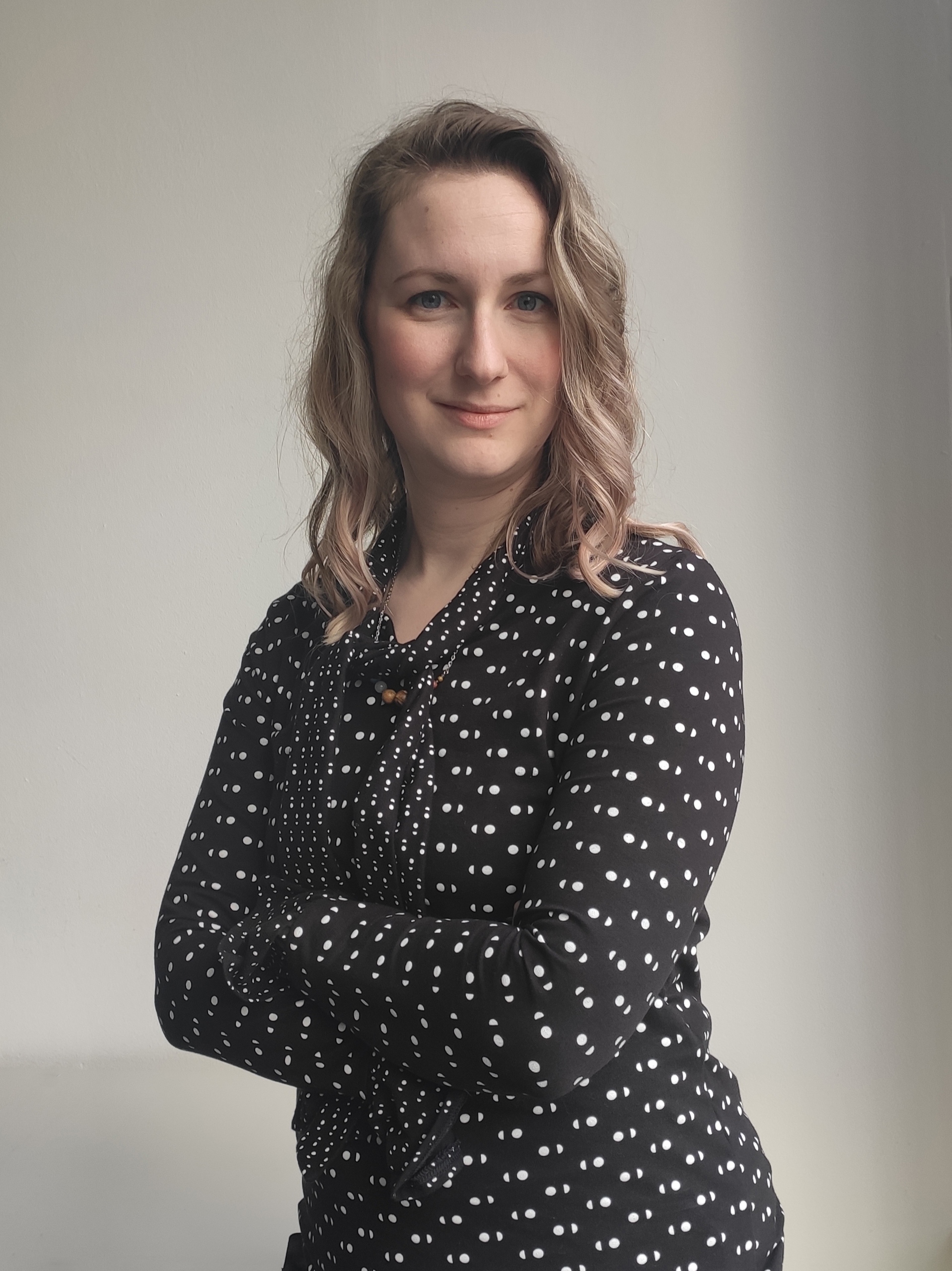 Samantha Stein, visiting the WMNL offices